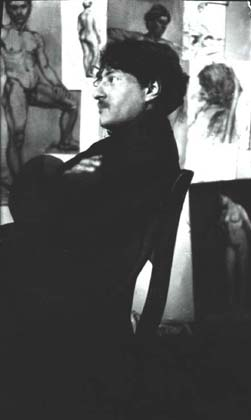 D. Shevardnadze. Munich, 1907-1914, 9 x 12